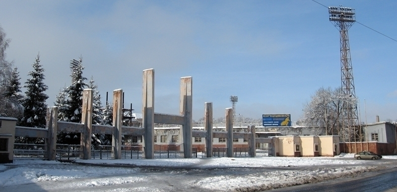 SCA Stadium in Lviv